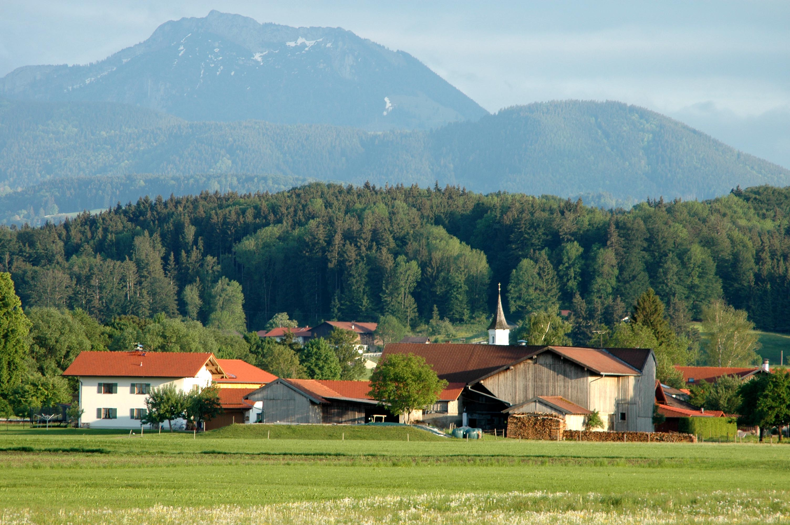 Linden/Bruckmuehl from north (River Mangfall)